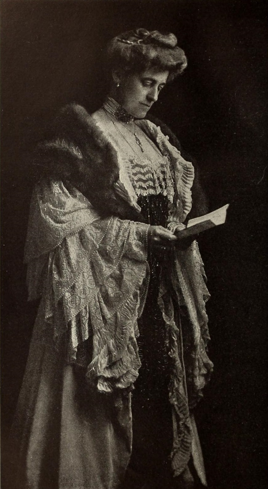 Picture of Edith Wharton